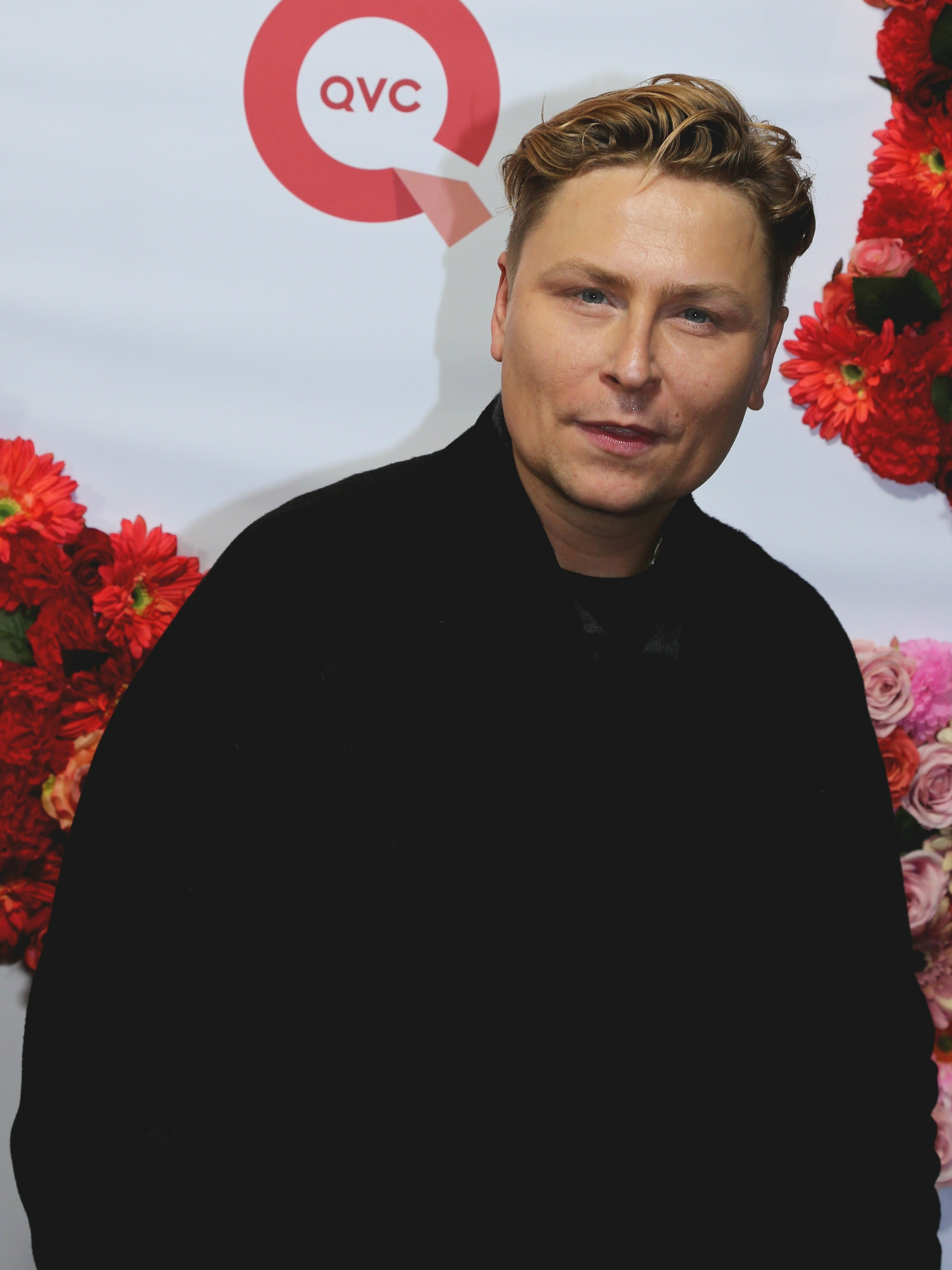 Dawid Tomaszewski, a Polish-German fashion designer.